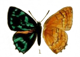 Simiskina philura, male, Borneo, from Druce, 1895, Pl. 32, fig.1.